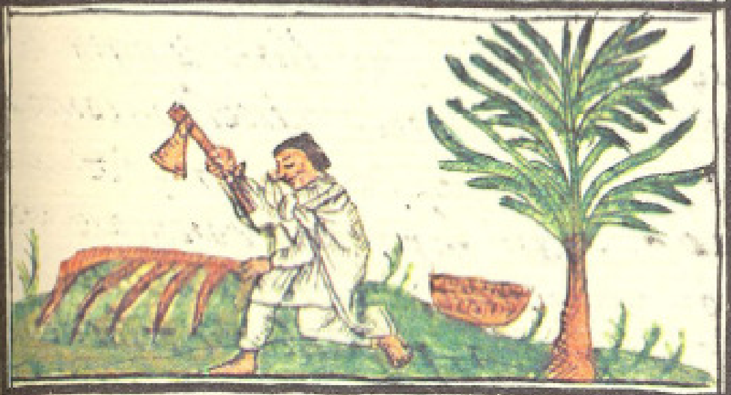 Illustration of "coatli" (lignum nephriticum) by Spanish Franciscan missionary and ethnographer Bernardino de Sahagún in the Florentine Codex. He describes its unusual property of turning the color of water that comes in contact with it to bright blue: "...patli, yoan aqujxtiloni, matlatic iniayo axixpatli (...it is a medicine, and makes the water of blue color, its juice is medicinal for the urine)"